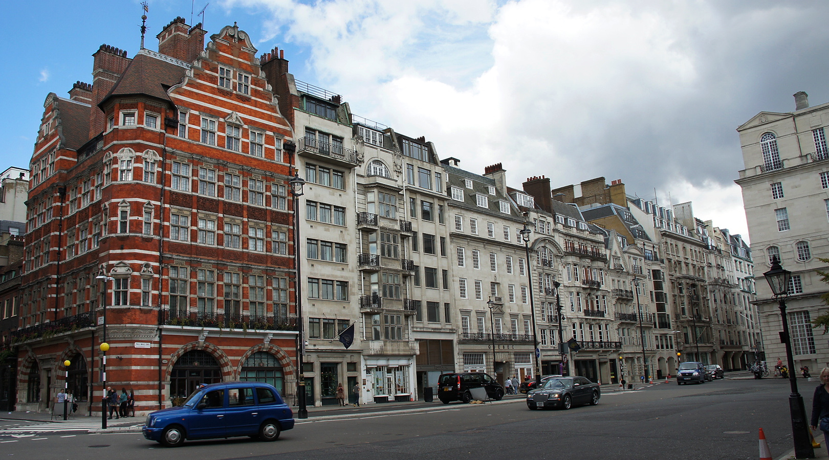 Tried out my new toy camera (Sony Alpha Nex 5) during a London shopping spree. So far so good ! (Btw, I'm not looking at replacing my DSLRs; this is just a little extra !) Pall Mall, London SW1.